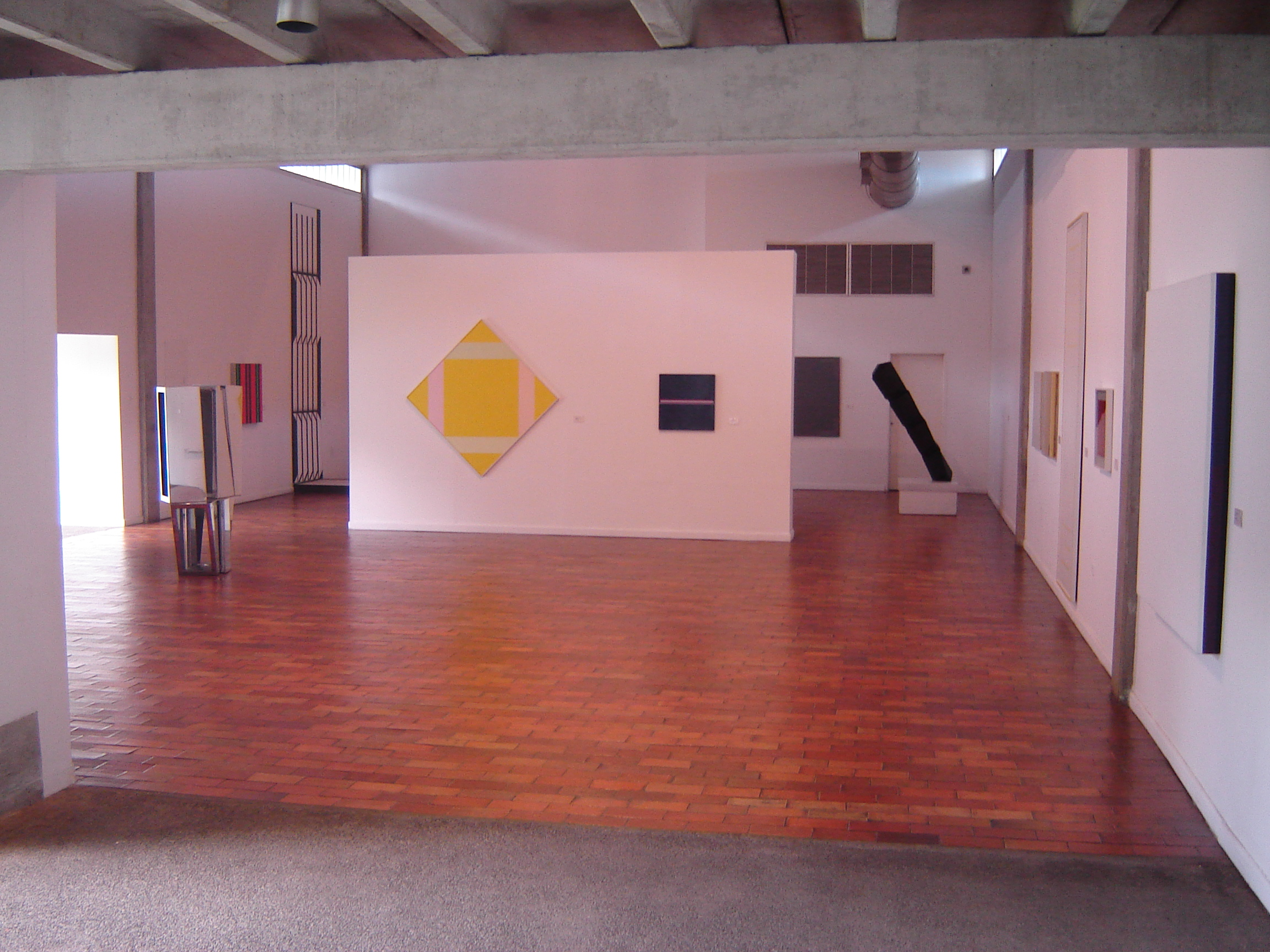 Another room of the Jesús Soto Museum of Modern Art.